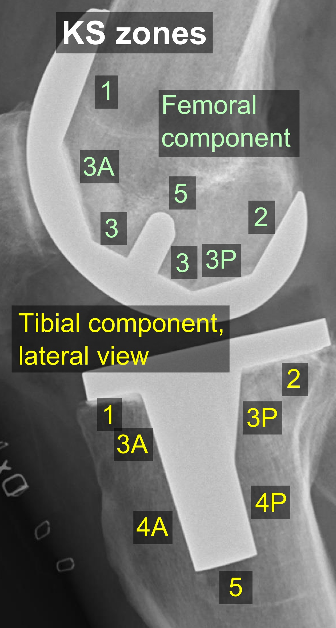 Template:Knee prosthesis zones by Knee Society 2015 - Description